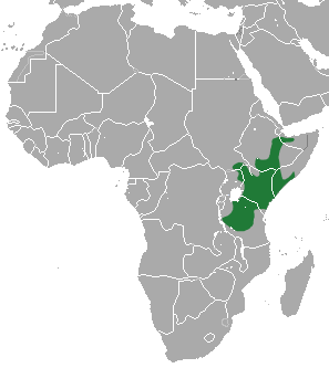 Rufous Elephant Shrew (Elephantulus rufescens) range